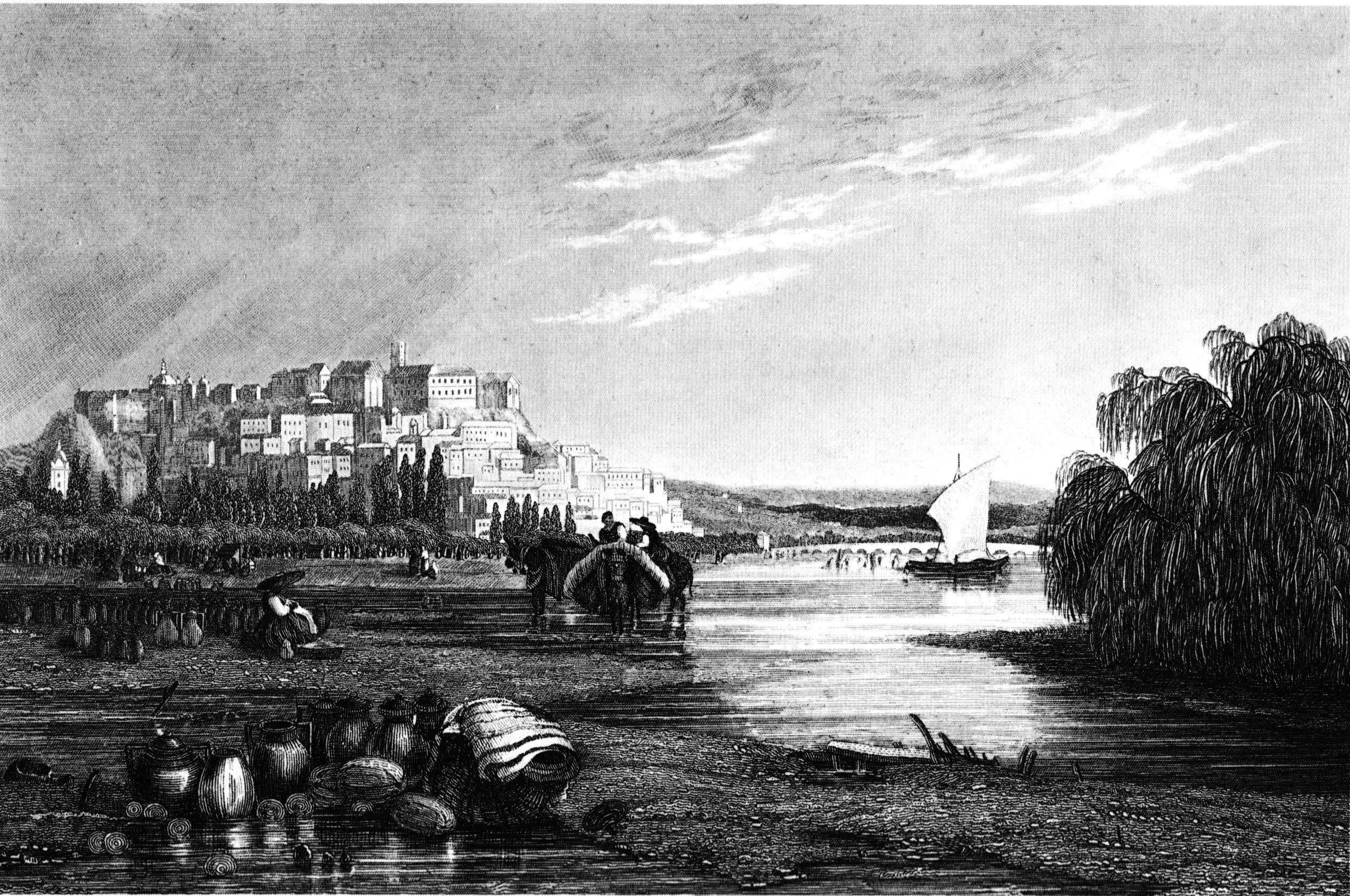 Land life near Coimbra around 1830.